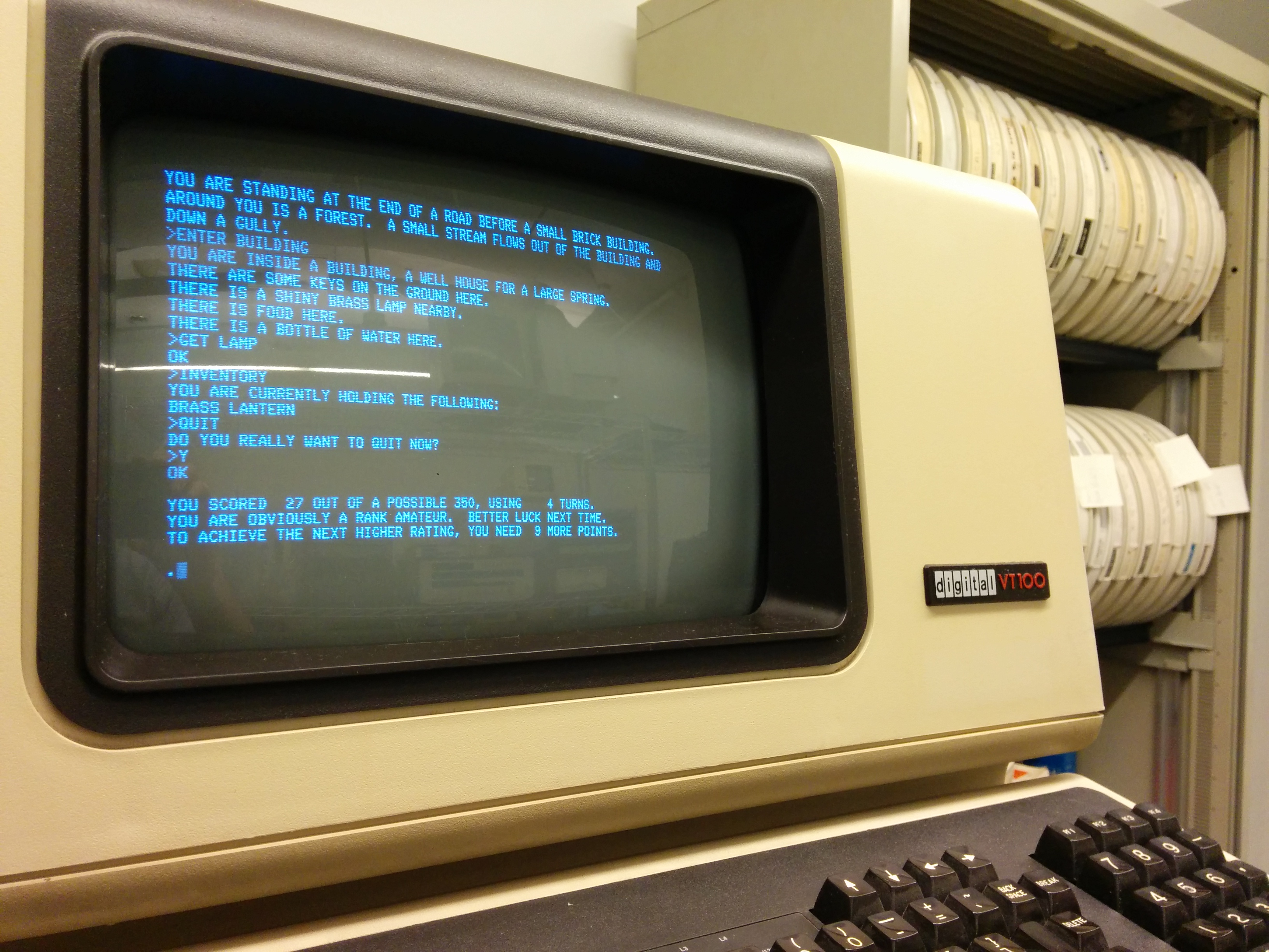 Colossal Cave Adventure running on a PDP-11/34 displayed on the VT100 console.